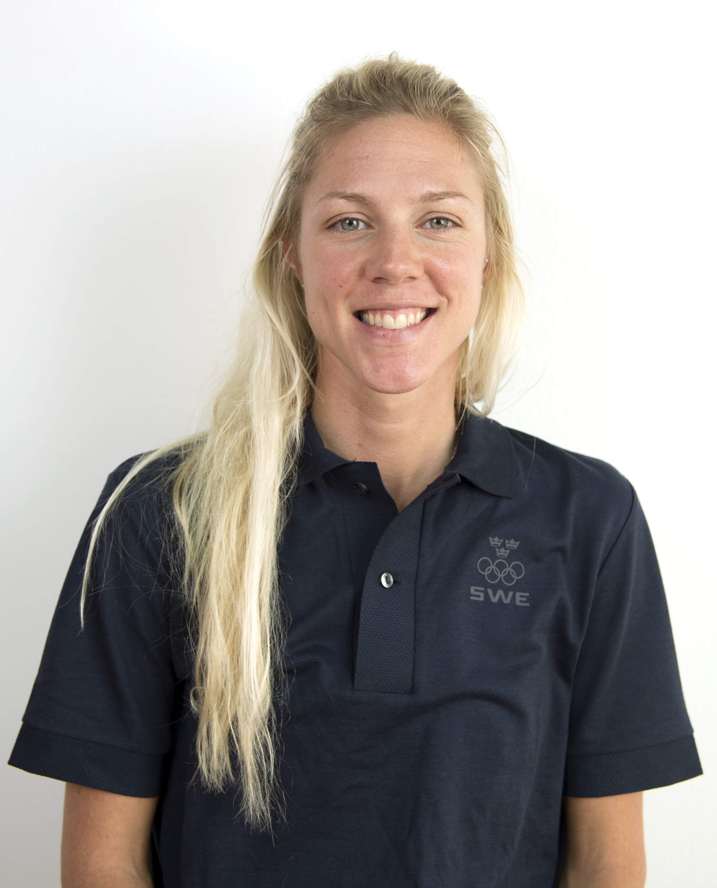 Swedish Olympic cyclist Emilia Fahlin.